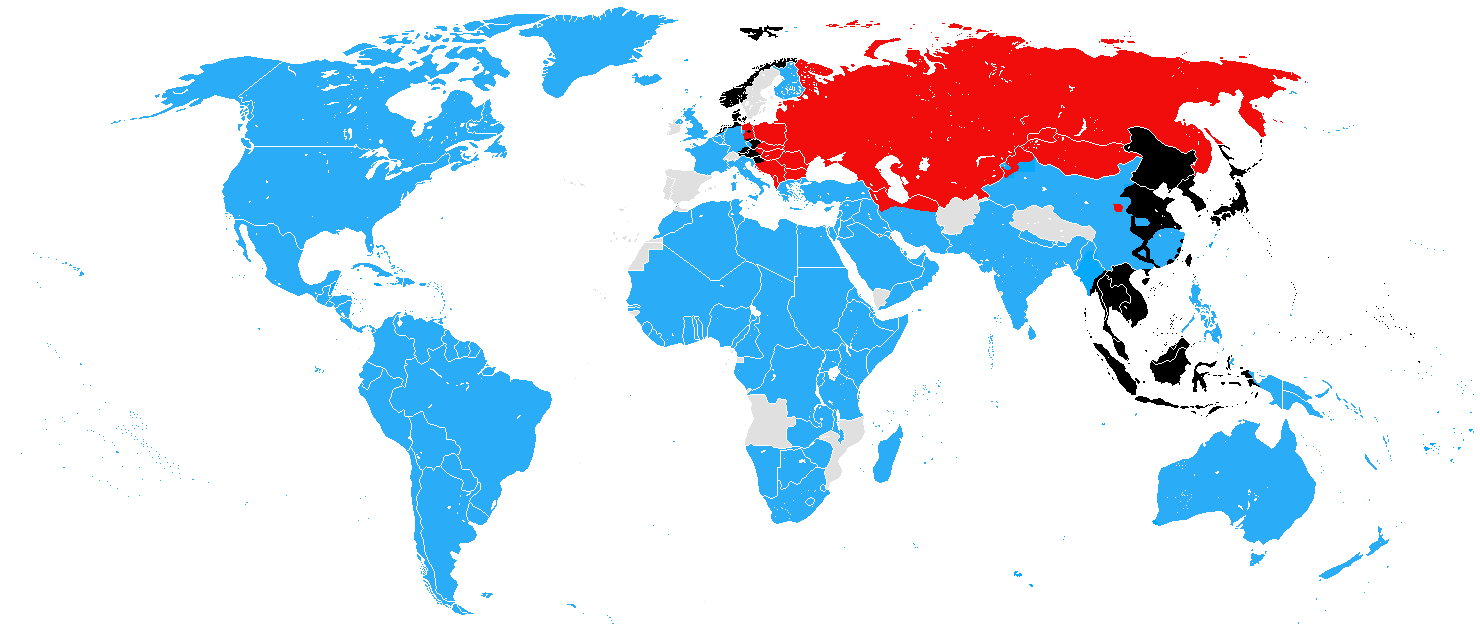 Western allies (blue), Soviet & allies (red) and Axis (black), May, 1945. Based on GNU image Image:WWII.png The factual accuracy of this map or the file name is disputed.Reason: See annotations AnnotationsThis image is annotated: View the annotations at Commons World War 2 Allied-Axis world maps 1939: Sep · Dec 1940: May · Dec 1941: Mar · Apr · Jul · Dec 1942: Jun · Nov · Dec 1943: Jul · Dec 1944: Jun · Aug · Dec 1945: May · Aug · Sep